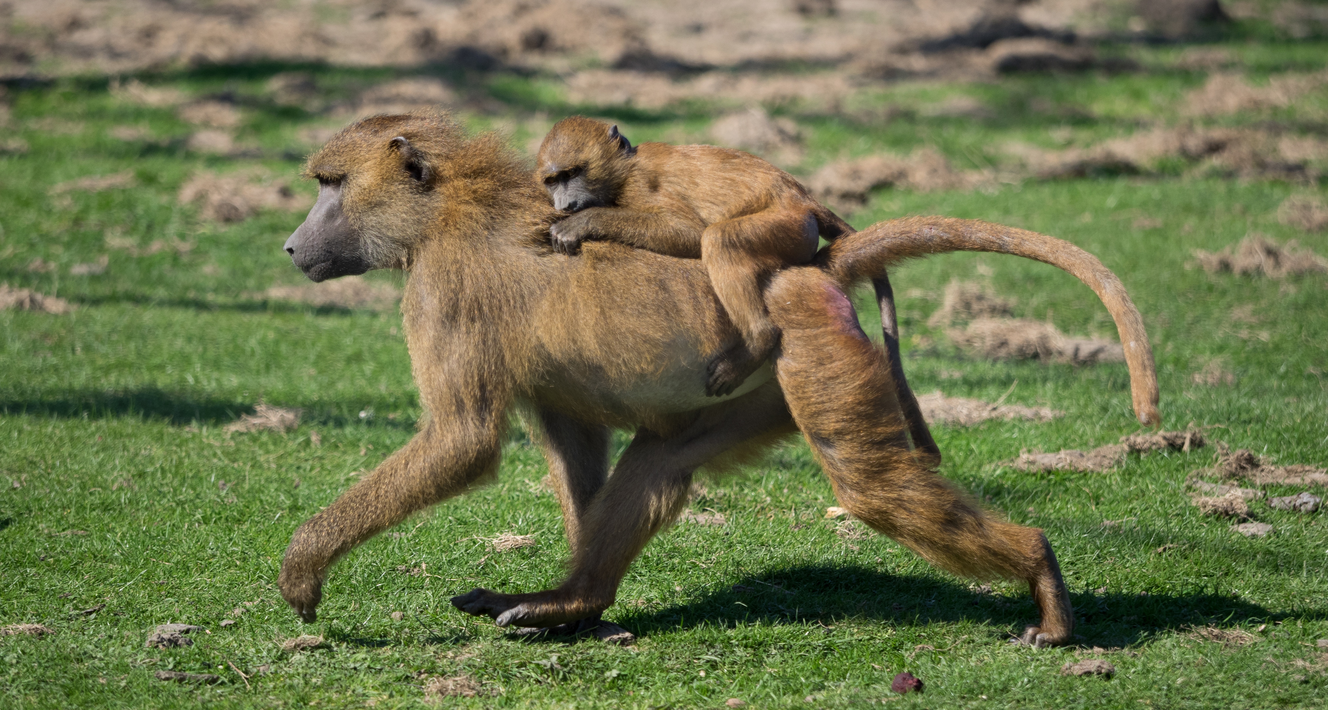 Guinea baboon (Papio papio) with juvenile at Port Lympne Wild Animal Park.